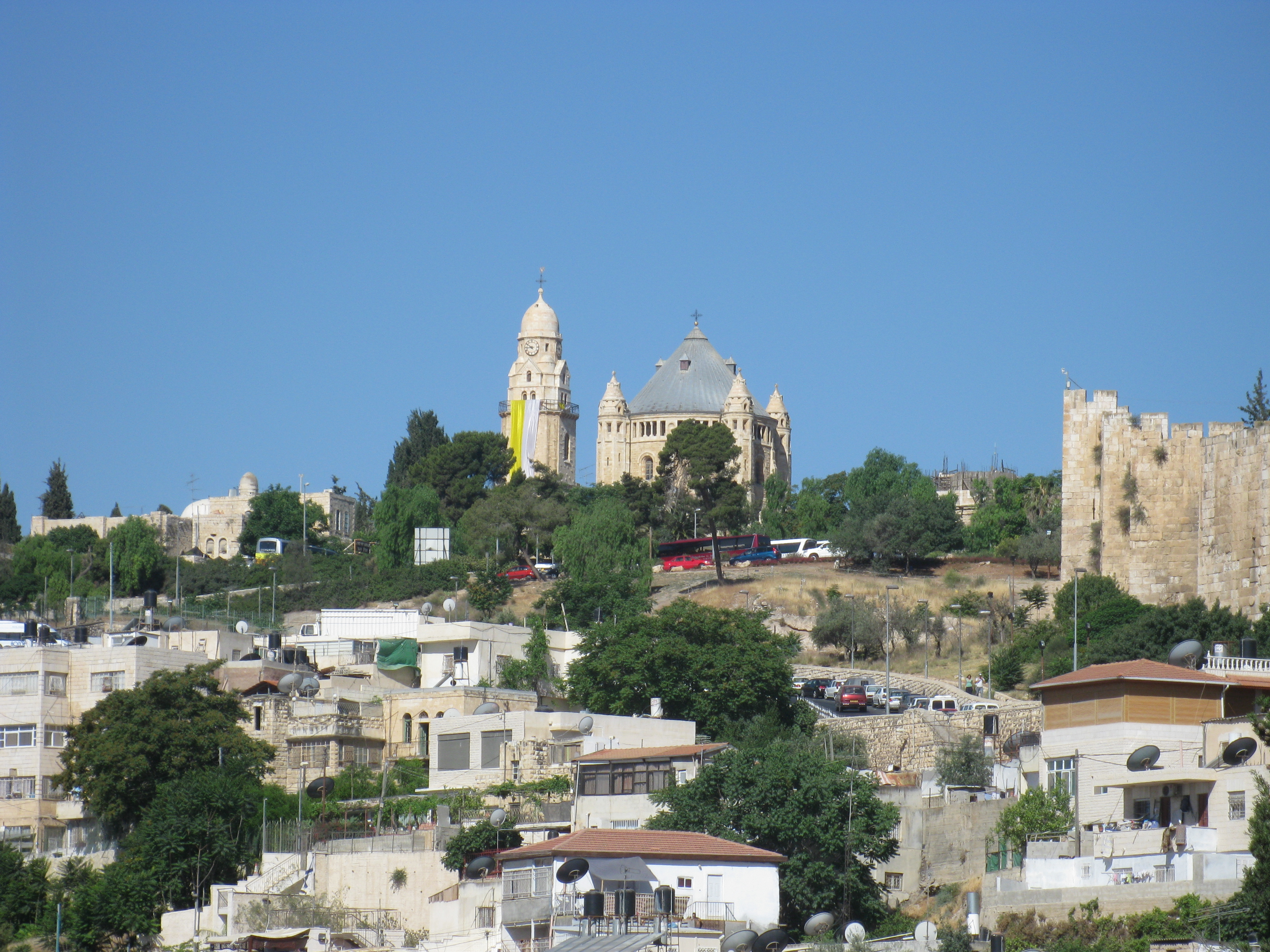 Views from the City of David